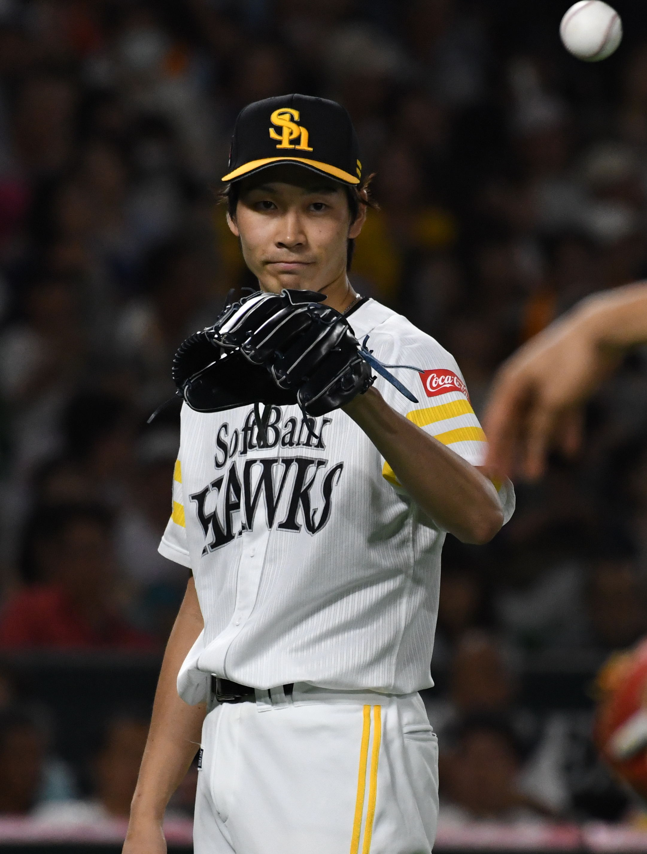 Shota Takeda, pitcher of the Fukuoka SoftBank Hawks, at Fukuoka Dome